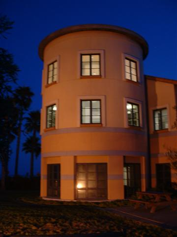 KITP at Santa Barbara at night